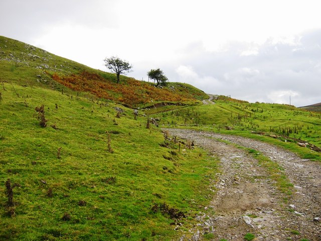 Holgate Moor The path up from Kexwith Farm to Holgate Moor